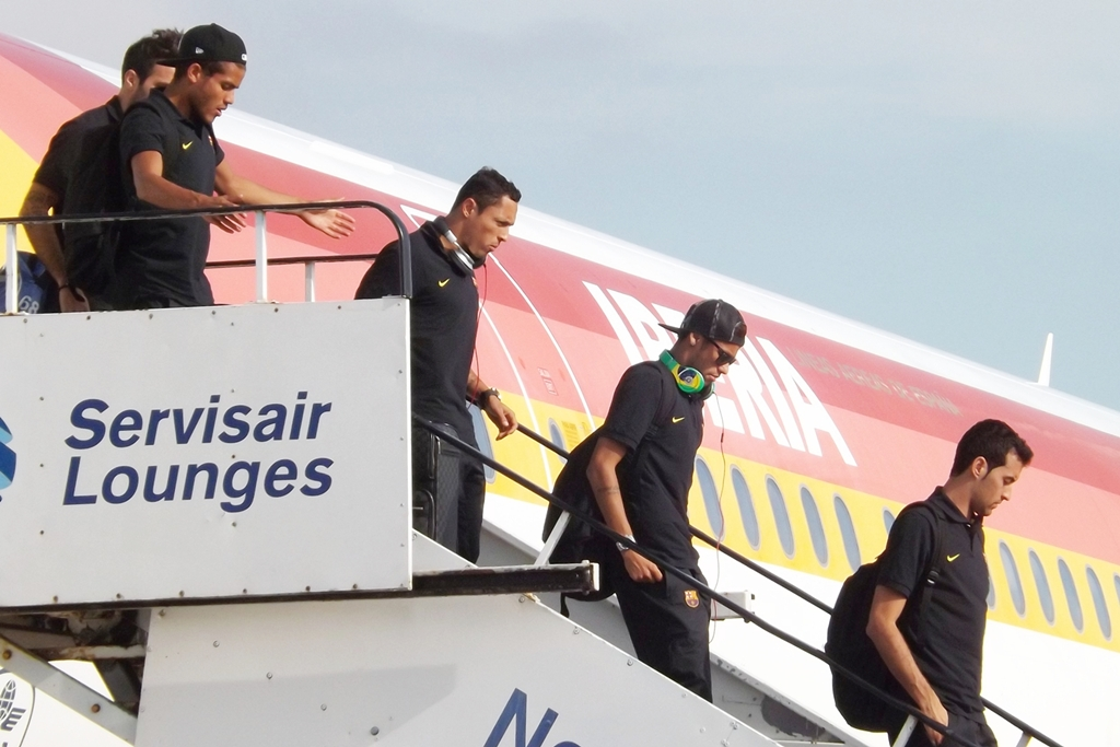 Barcelona FC arriving in Glasgow for their Champions League tie with Glasgow Celtic